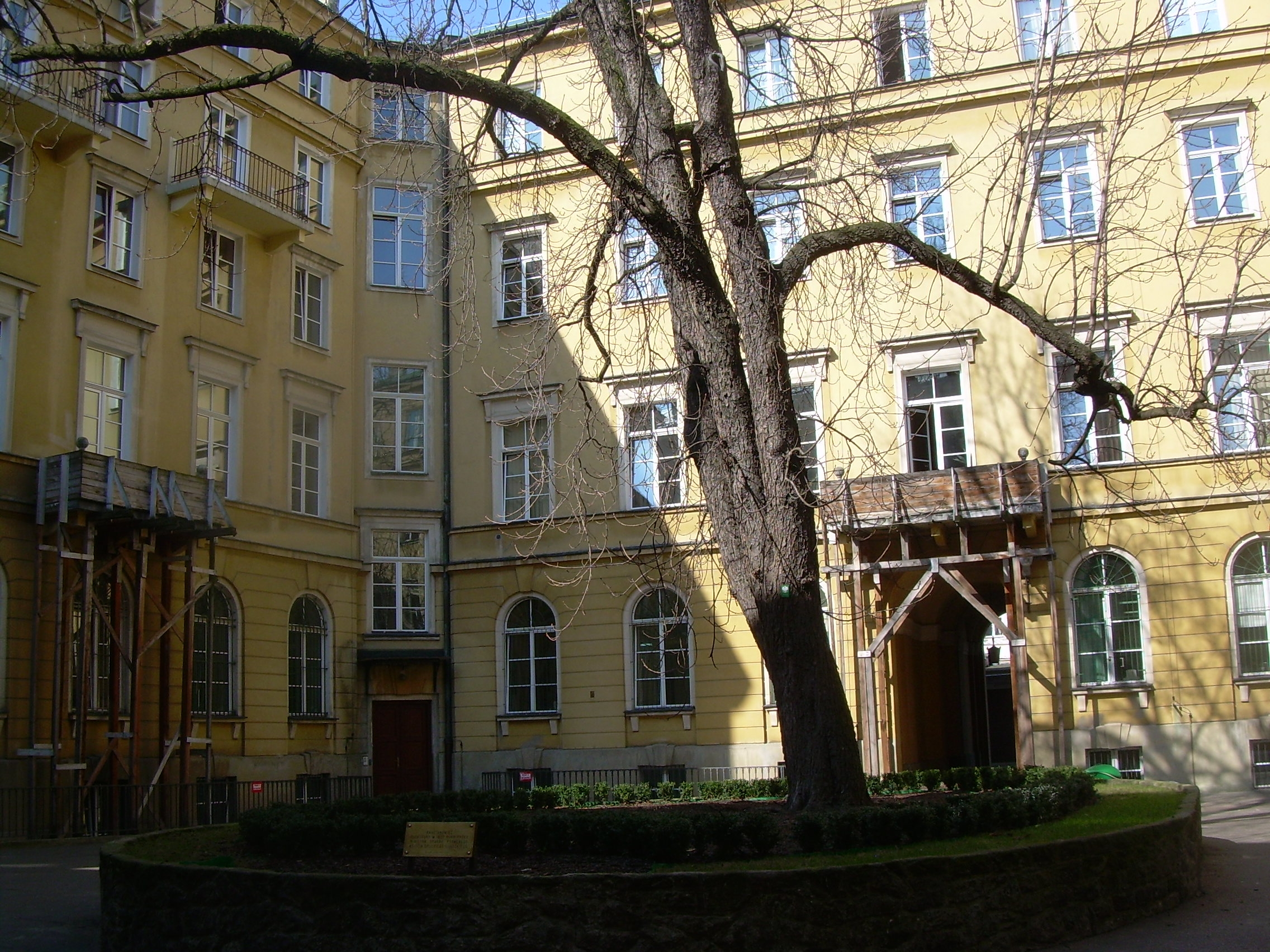 Budynek Głównego Urzędu Miar w Warszawie